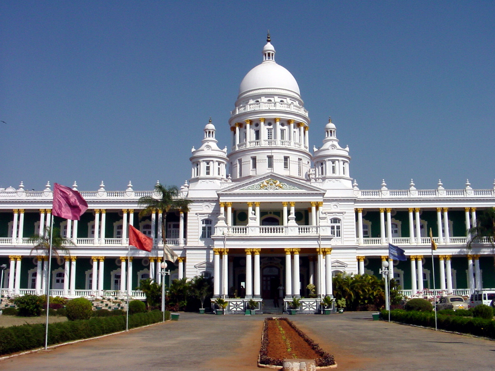 Lalitha Mahal. Mysore, Karnataka This Neoclassical-style palace was built in 1931 as a Maharaja's guest house. The government currently runs it as a hotel and venue for film-shoots (indeed, a crew was filming during our stay).